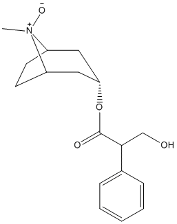 Structure of Atropine-N-oxide drawn with chemdraw